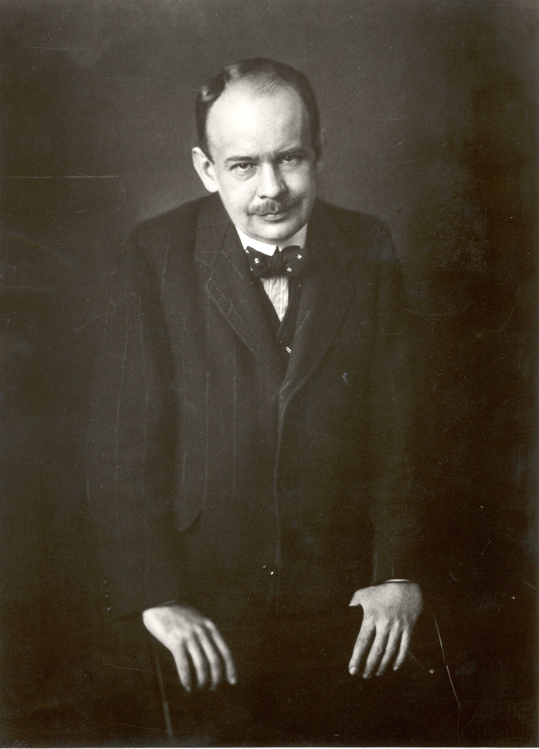 Max Dvořák (1874-1921), Czecho-Austrian art historian